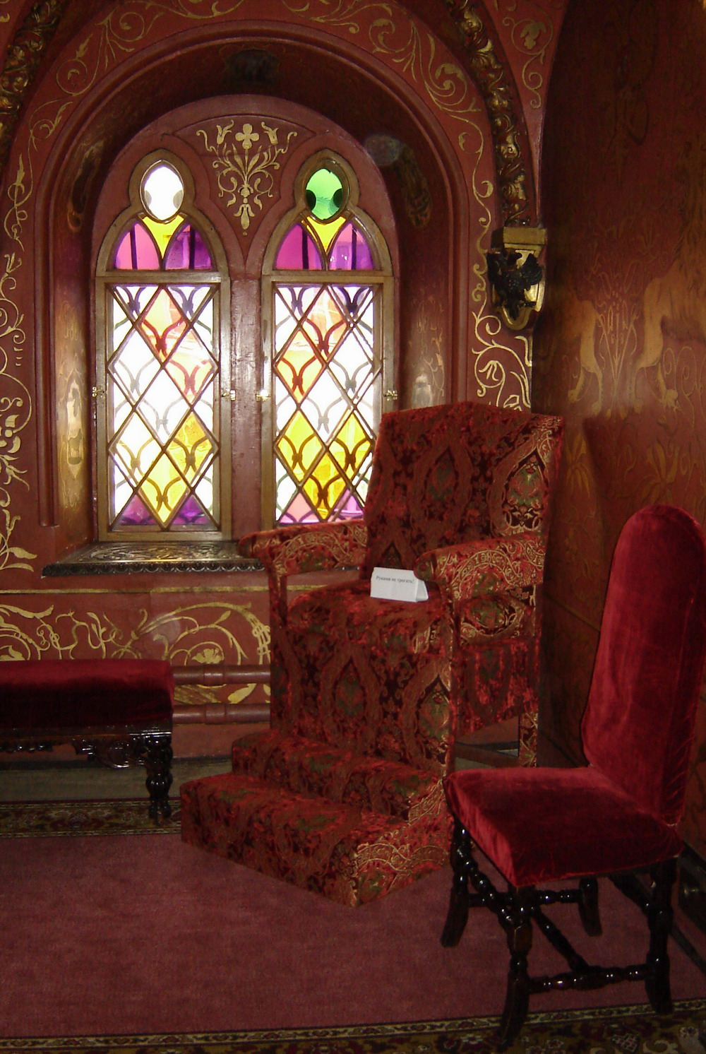 Teremnoy palace interior. Moscow Kremlin, Russia.